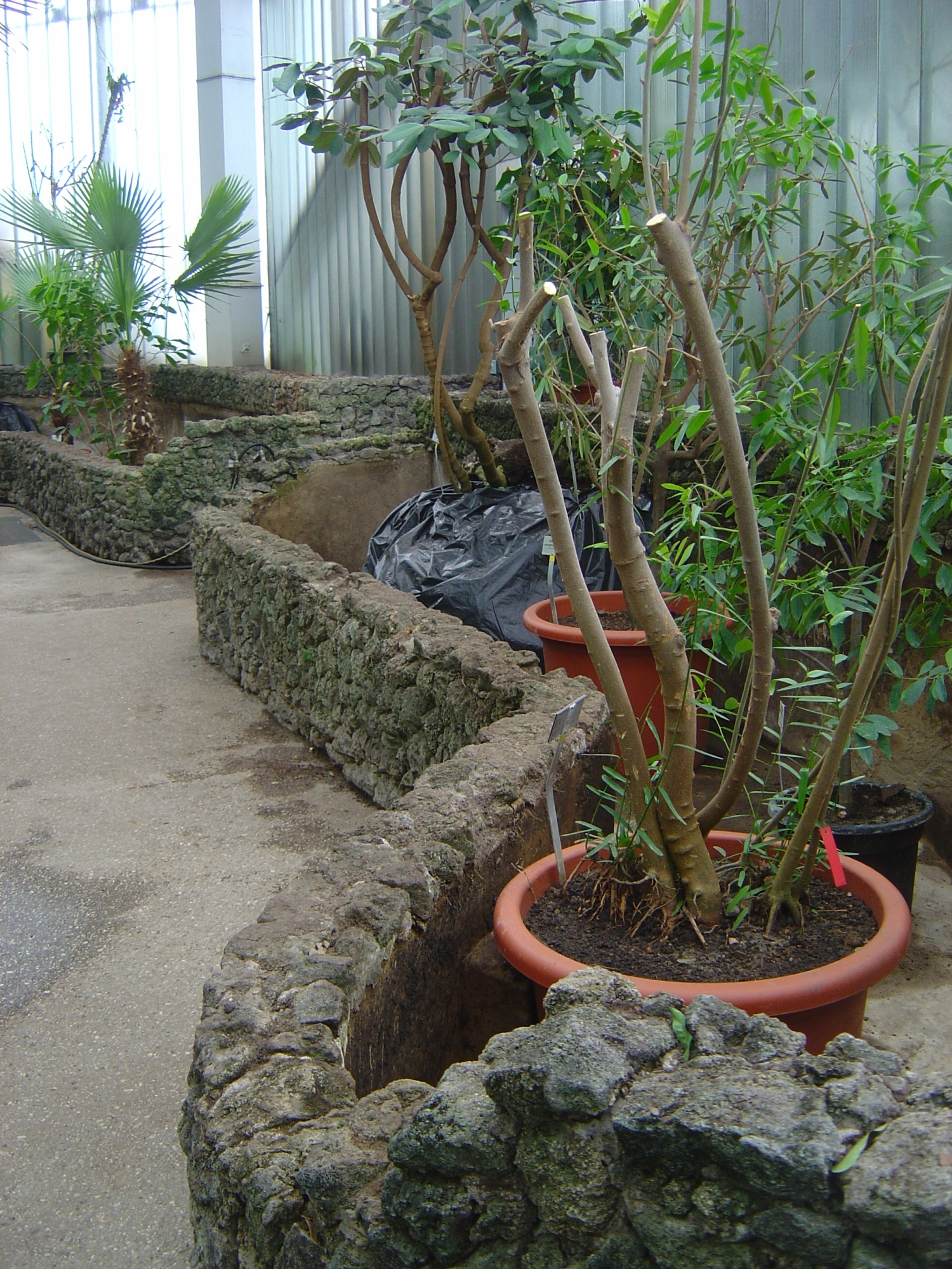 Botanical Garden Berlin: redevelopment is beginning, lots of plants are going to be replantet because of the renovation of the big greenhouse.